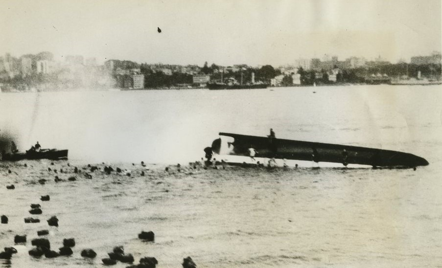 Sydney ferry RODNEY capsized and about to sink 12 February 1938